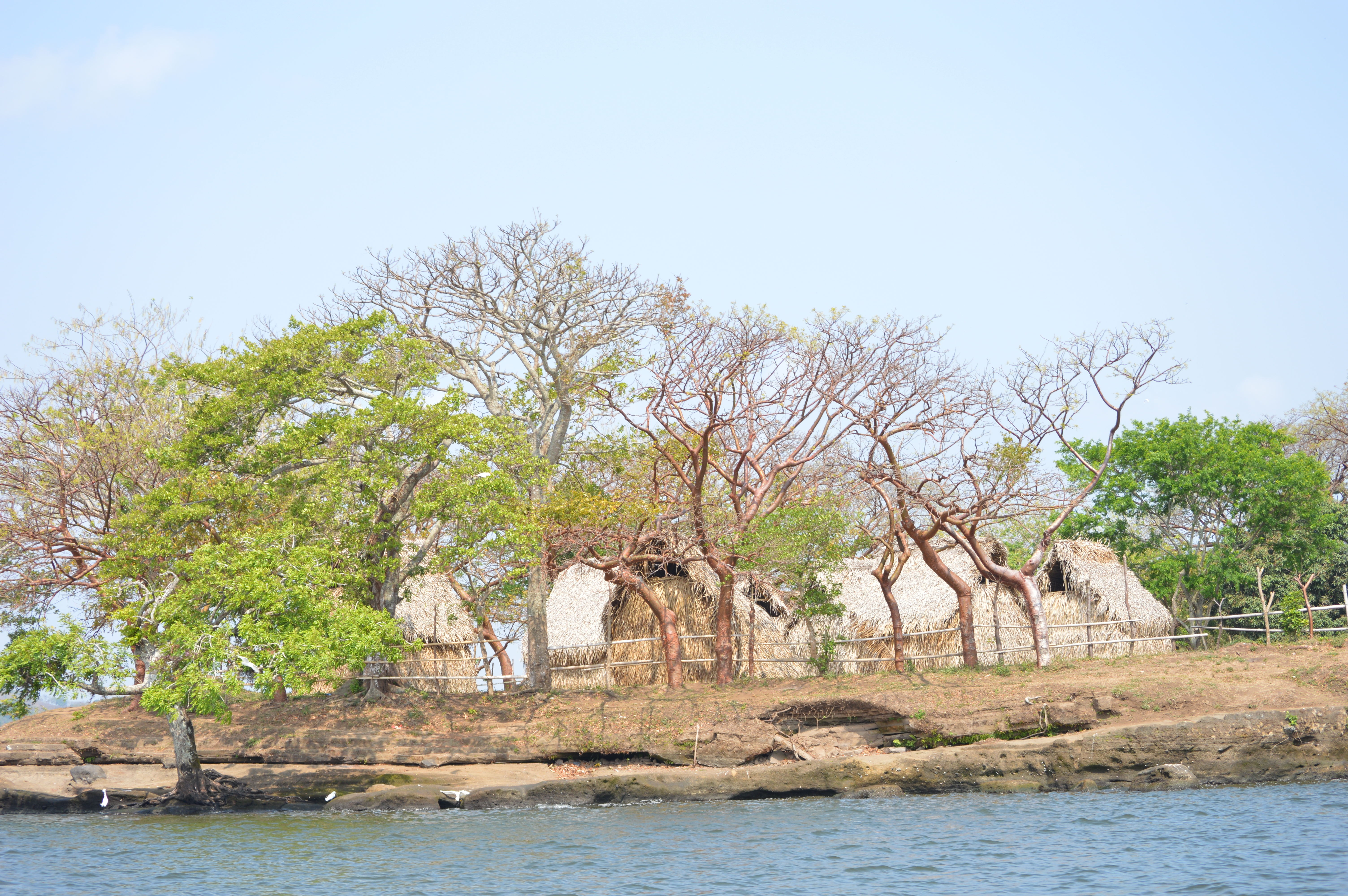 Reunion area or shamans and others in Catemaco, Veracruz, Mexico